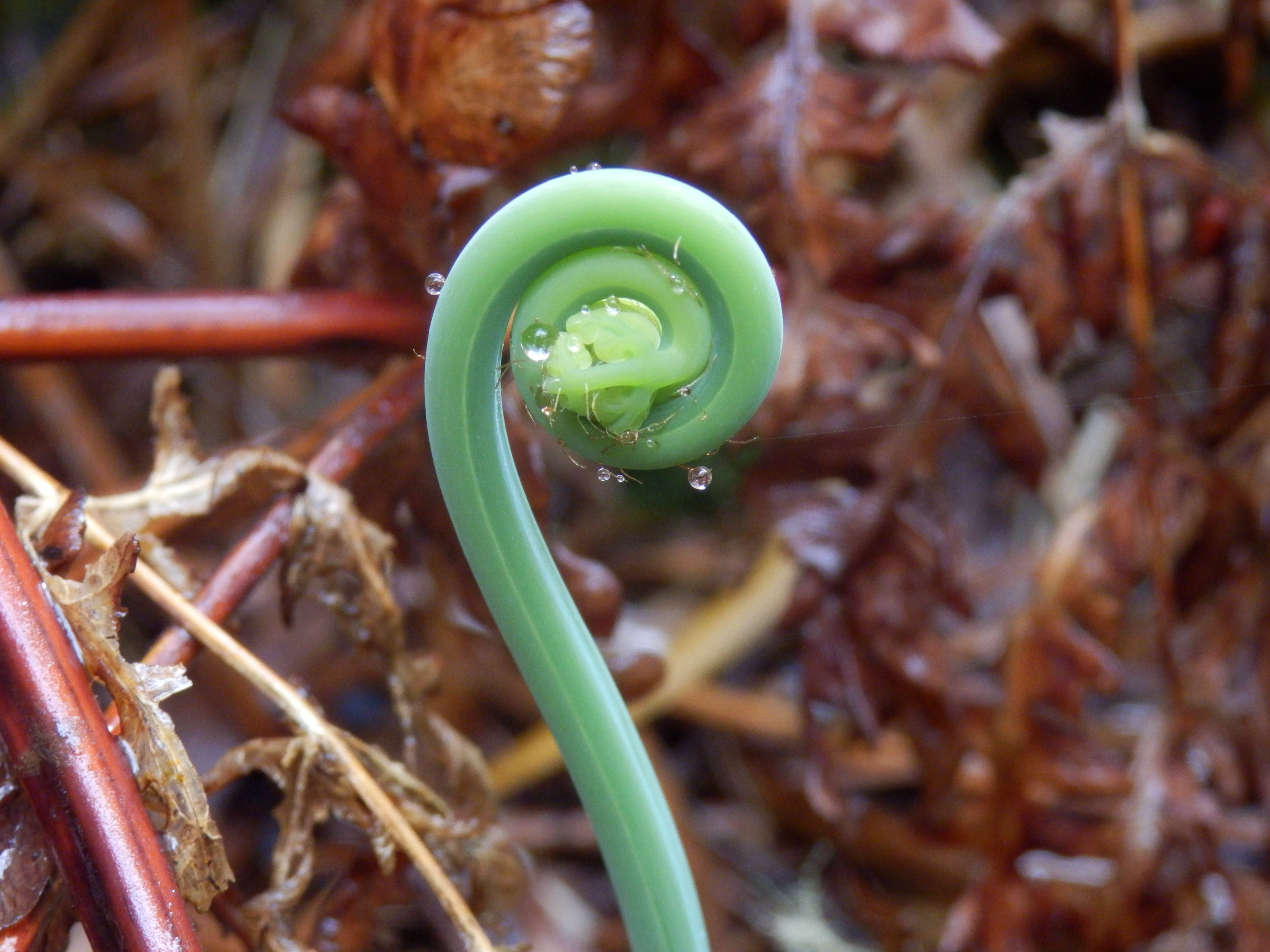 Fiddlehead in Salazie, Réunion